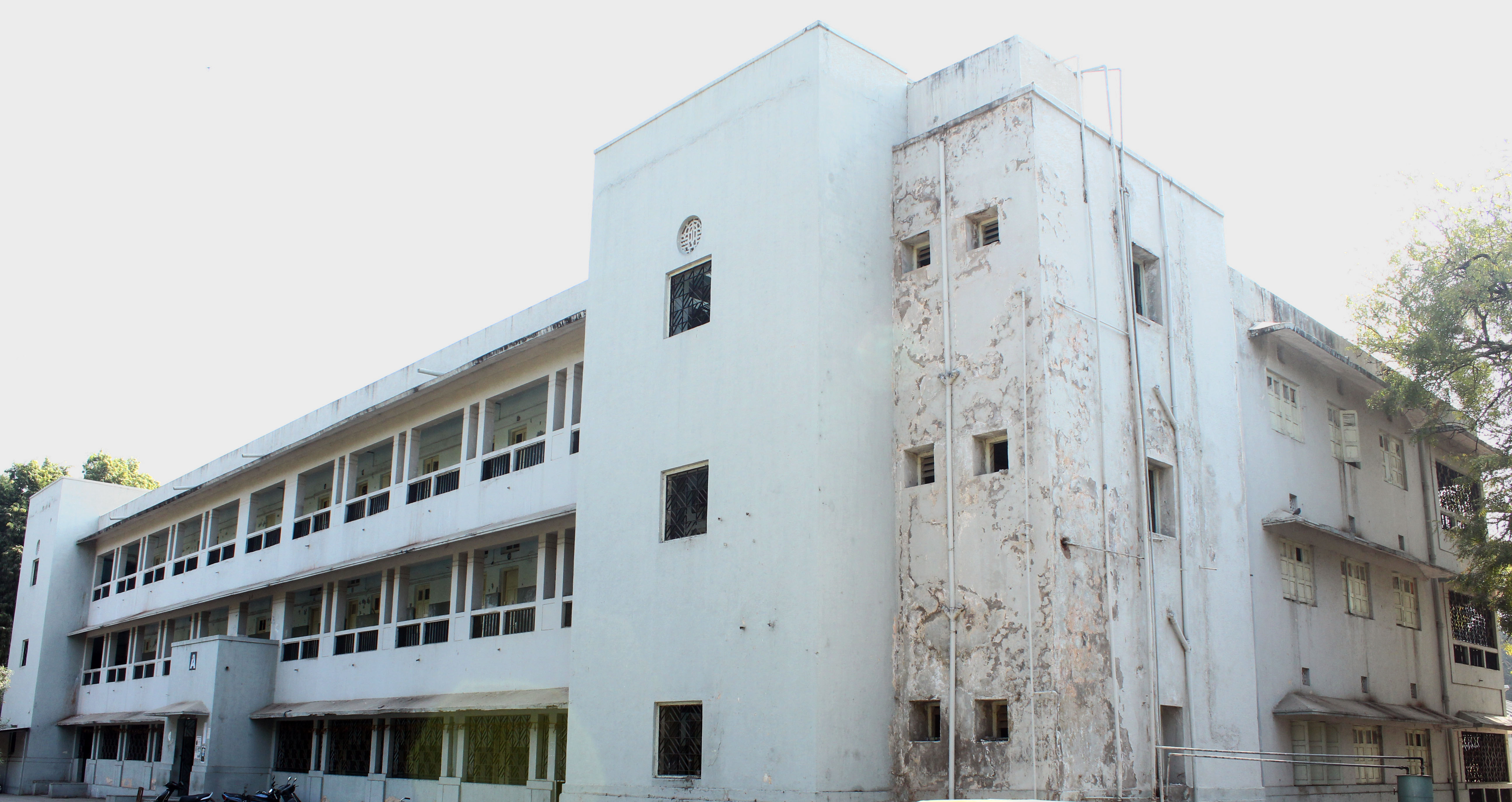 L.D. College of Engineering, Ahmedabad, Gujarat, India. Hostel building 'A' located near the side entrance of the college.